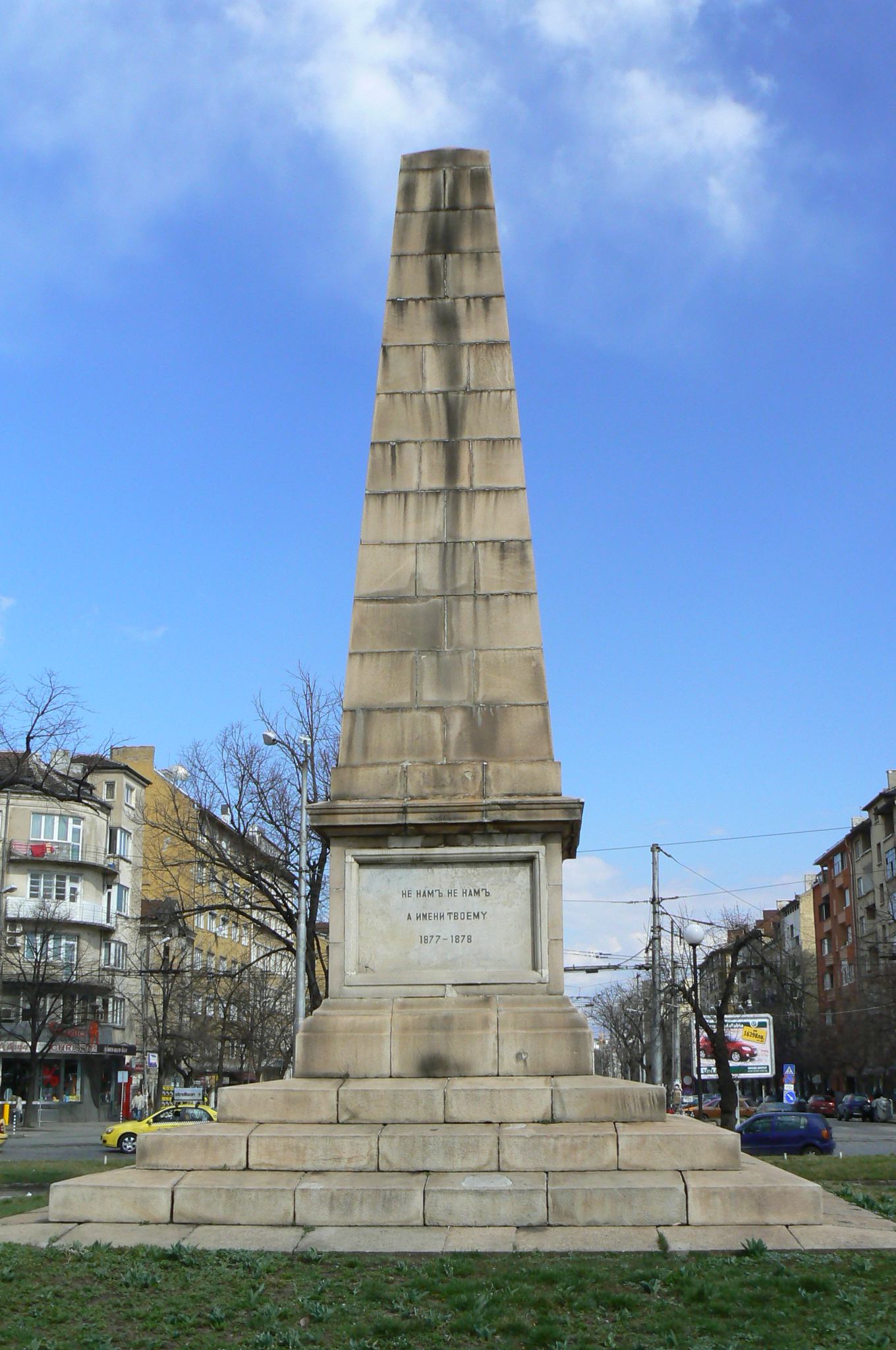 West side of the Russian monument in Sofia, Bulgaria